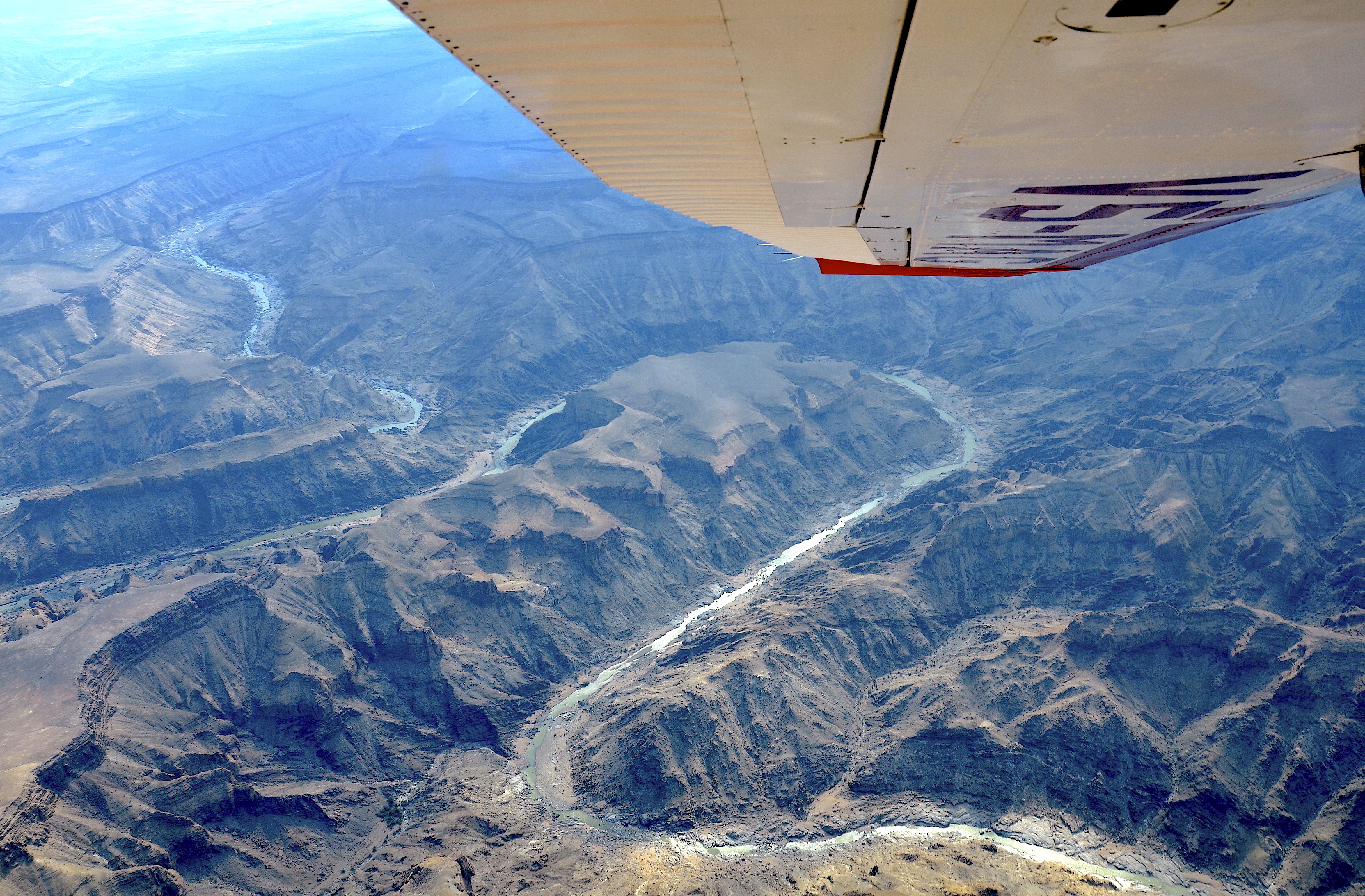 Aerial view of Fish River Canyon in Namibia (2017)